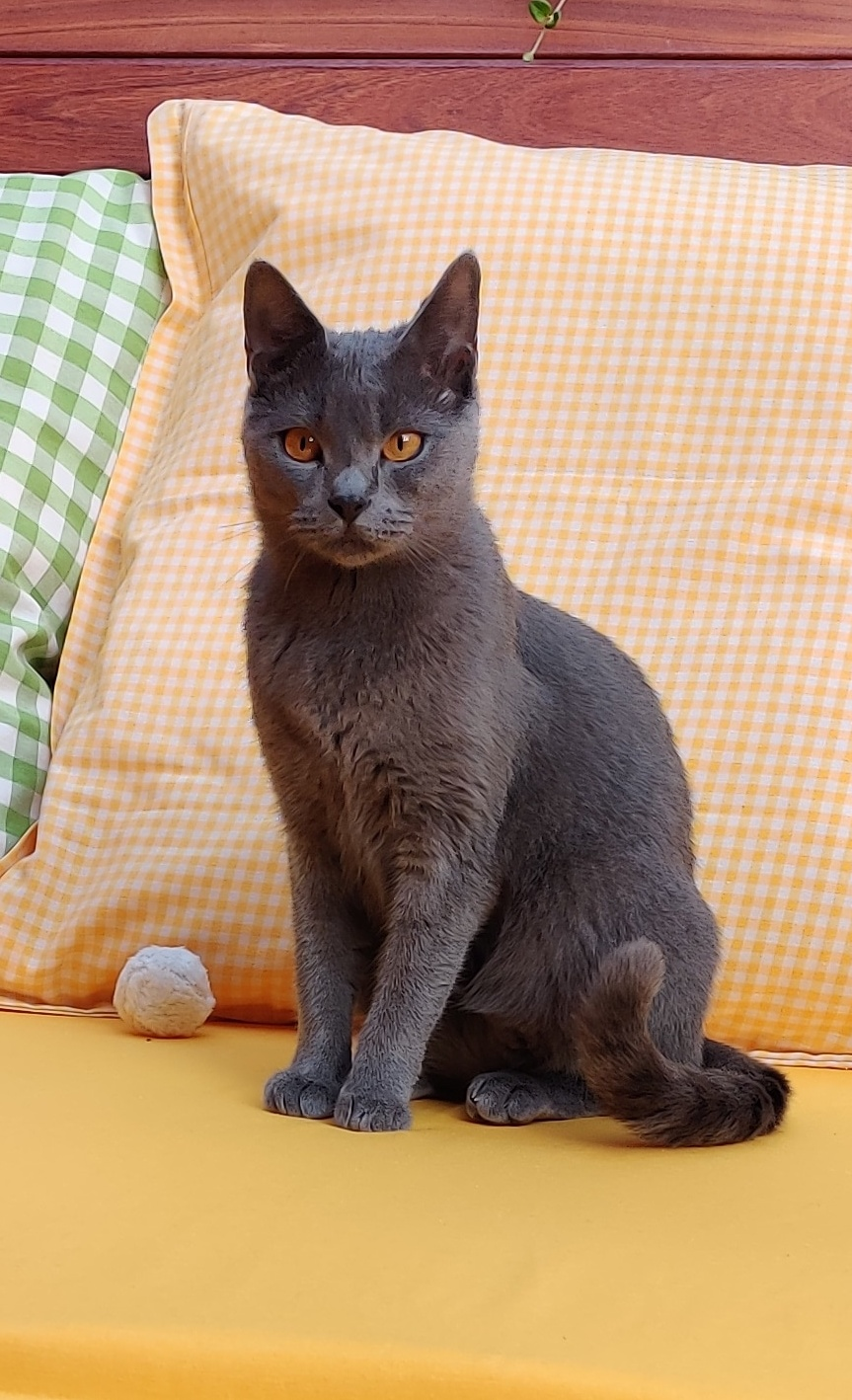 Chartreux cat Female, 2 Years old